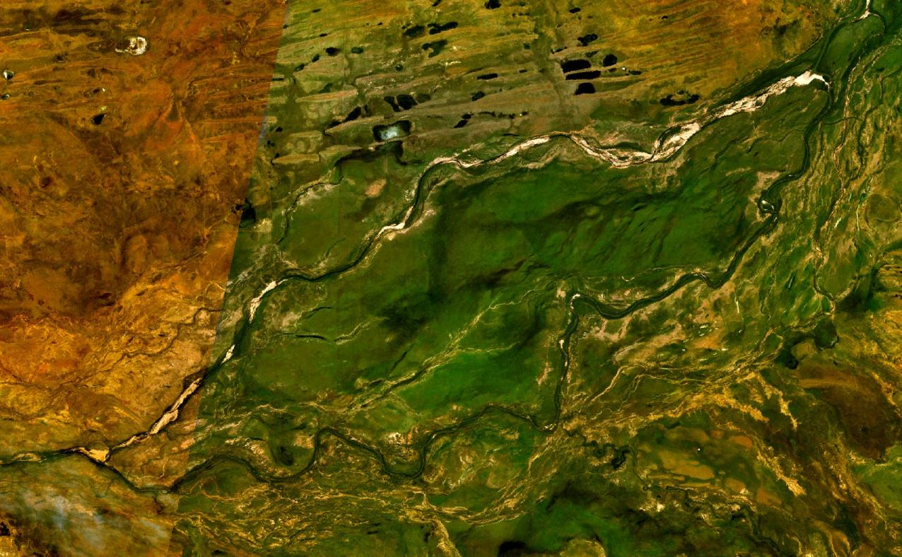 This is an image of Alexander Island in the Fitzroy River, Western Australia.